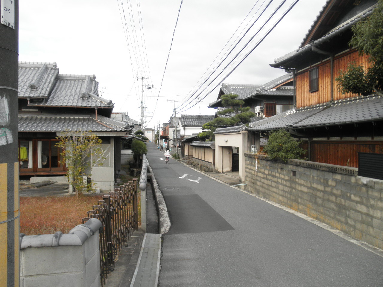 Oshikumatown Naracity Narapref Naraectural and Kyotoprefectural road 52 Nara Seika Line.JPG